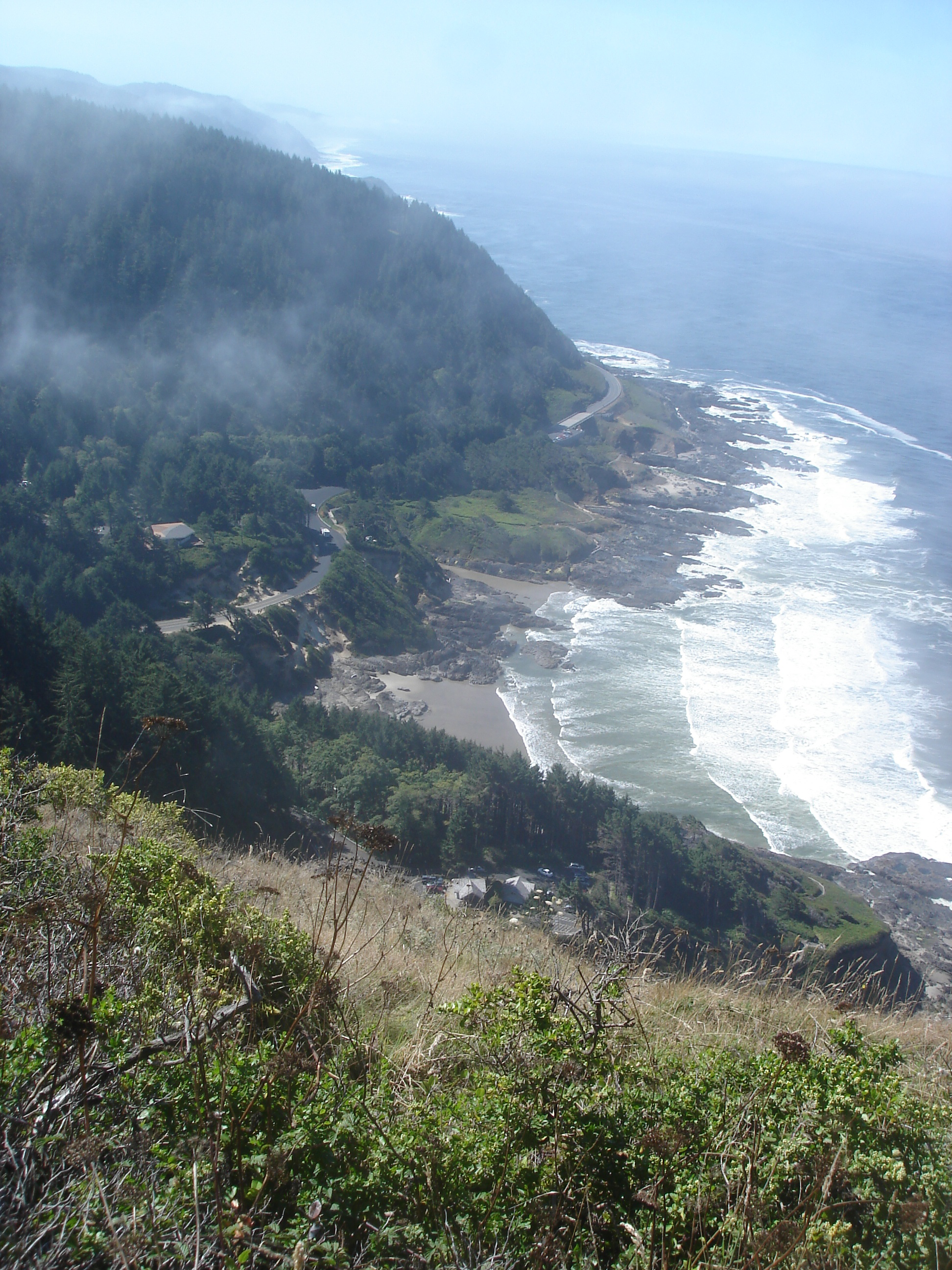 United States Highway 101 winds along the Oregon coast south of Cape Perpetua as viewed from the Cape Perpetua overlook